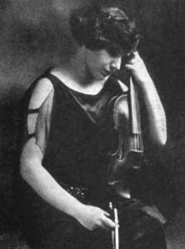 A white woman seated, holding a violin, looking downward, wearing a black dress with bare shoulders. Her hair is short or in an updo, off her neck.